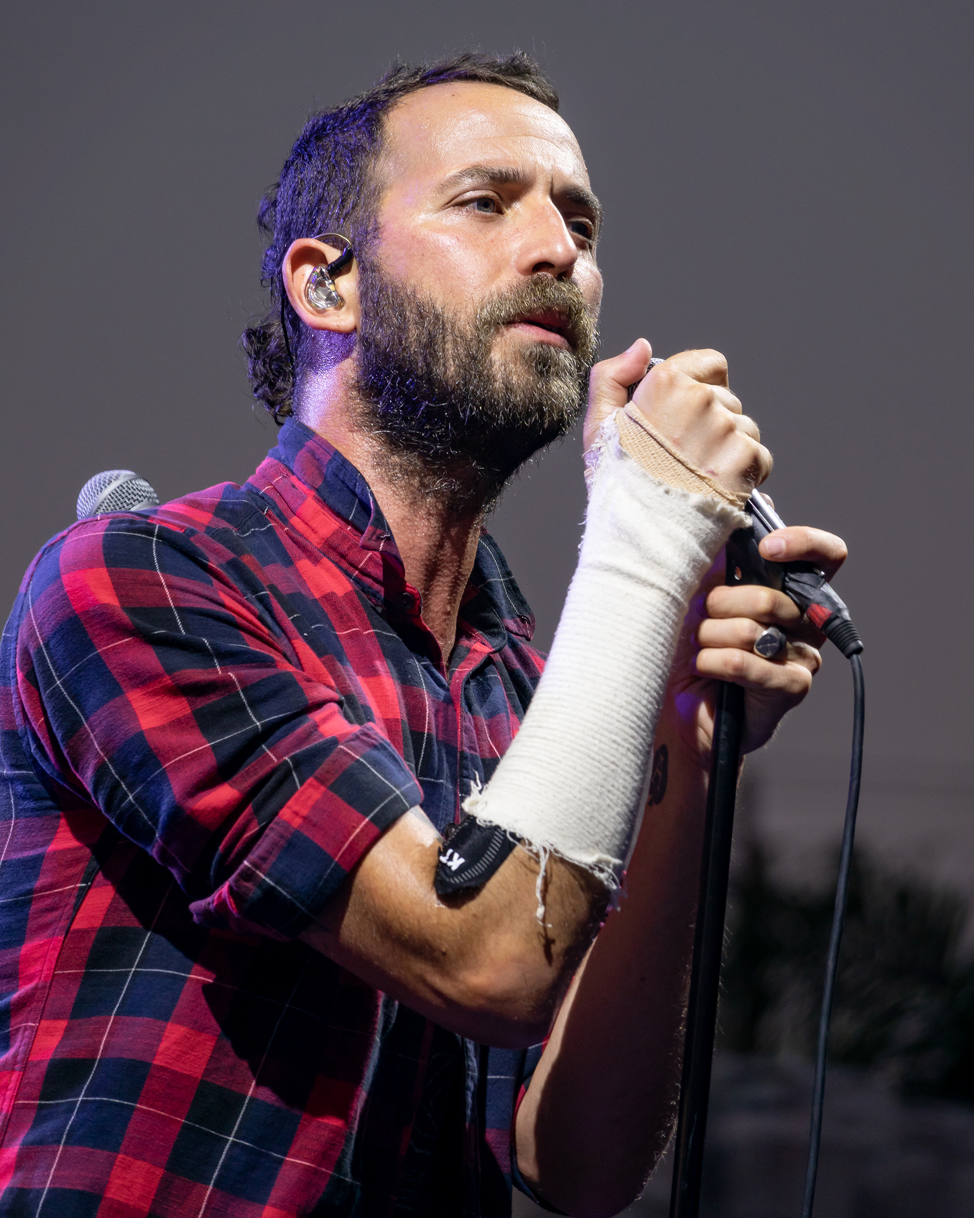 Mondo Cozmo performing live at the "Made In L.A." Festival at Golden Road Brewing in Los Angeles, California, on Saturday, September 1, 2018.